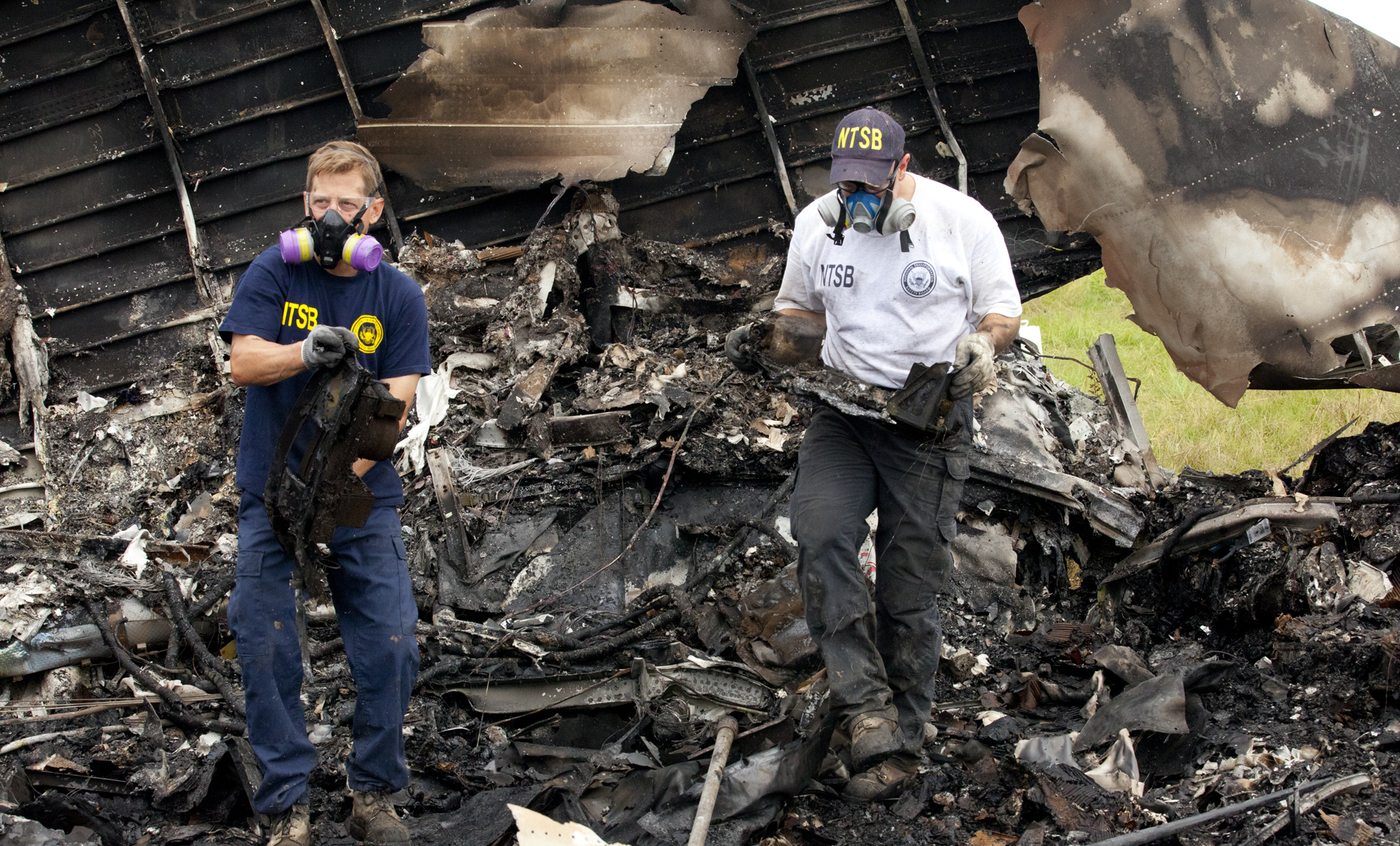 NTSB investigators remove the recorders from UPS 1354.